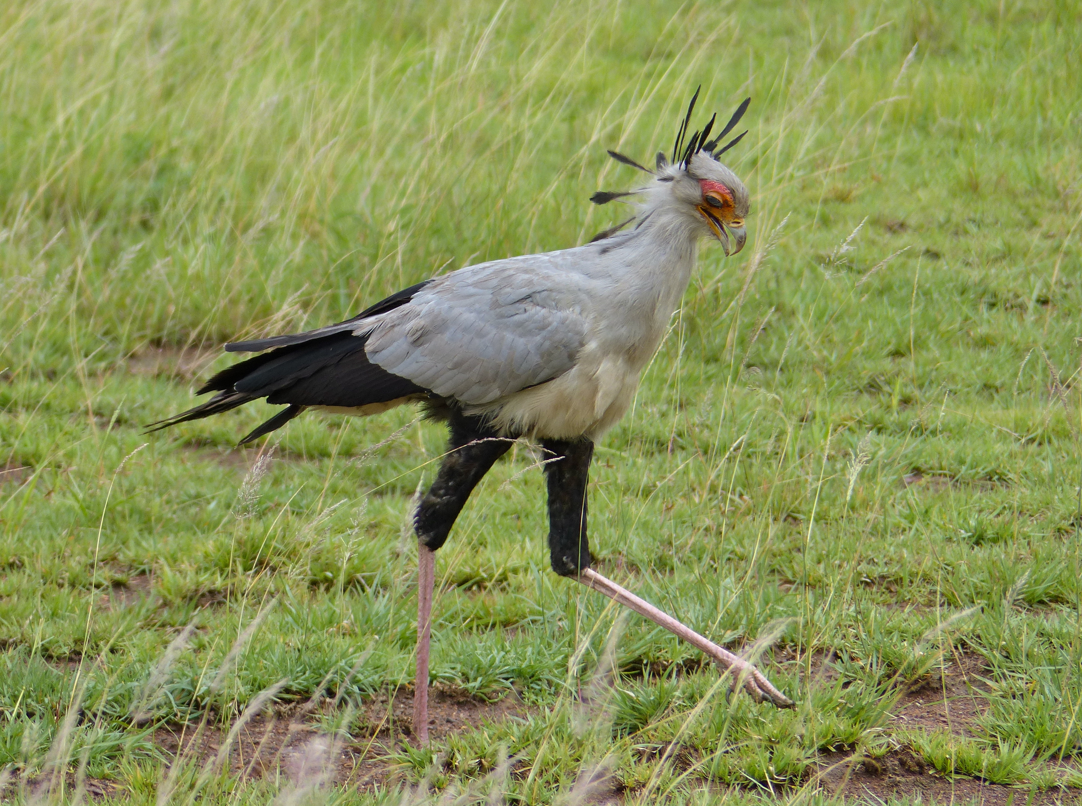 H10 Road North of Lower Sabie, Kruger NP, SOUTH AFRICA